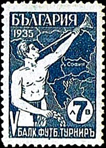 Stamp Investment Tip: Bulgaria 1935 Balkan Soccer Tournament (Scott #267-72)